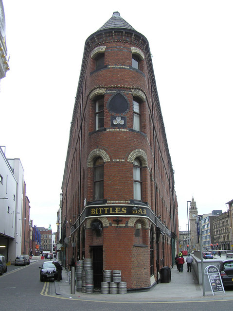 Bittles Bar, Belfast It is located at Upper Church Lane